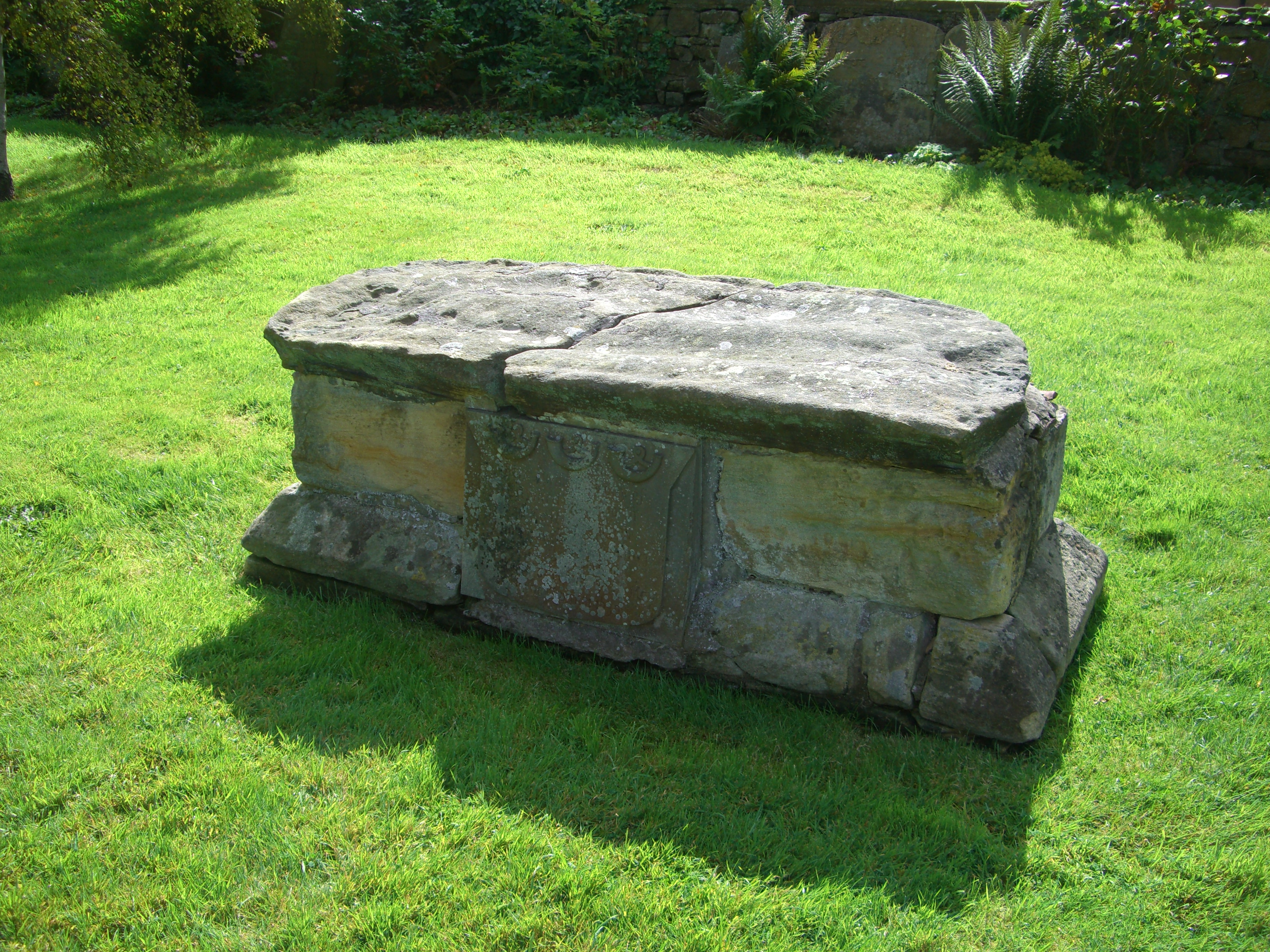 The huntsman's tomb in the churchyard of St Lawrence church, Warkworth, England